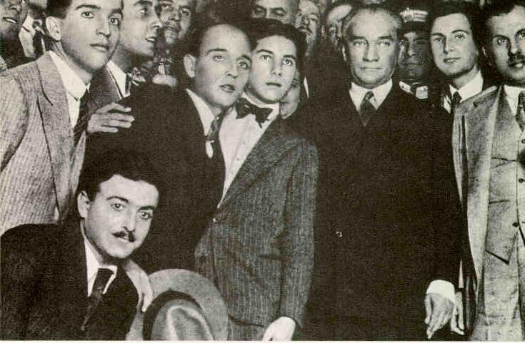 Mustafa Kemal Atatürk's visit of Istanbul University, 2 July 1933Türkçe: Mustafa Kemal Atatürk'ün İstanbul Üniversitesi ziyareti, 2 Temmuz 1933